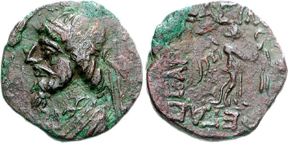 Sarpedones. Circa 15-1 BC Diademed and draped bust left Rev Nike standing right, holding wreath and palm